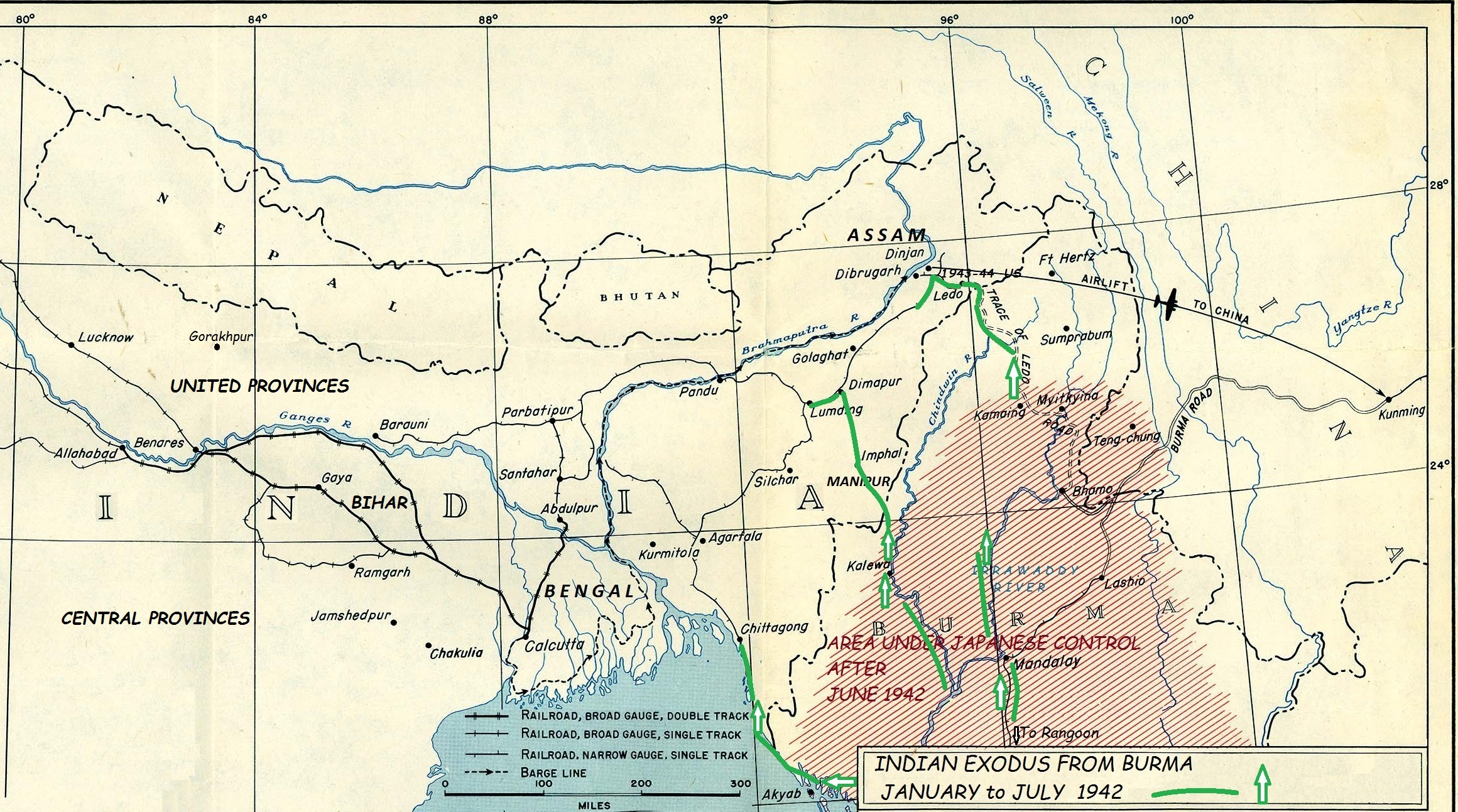 Map of the Indian exodus from Burma to Manipur, Bengal, and Assam, in India, from January to July 1942